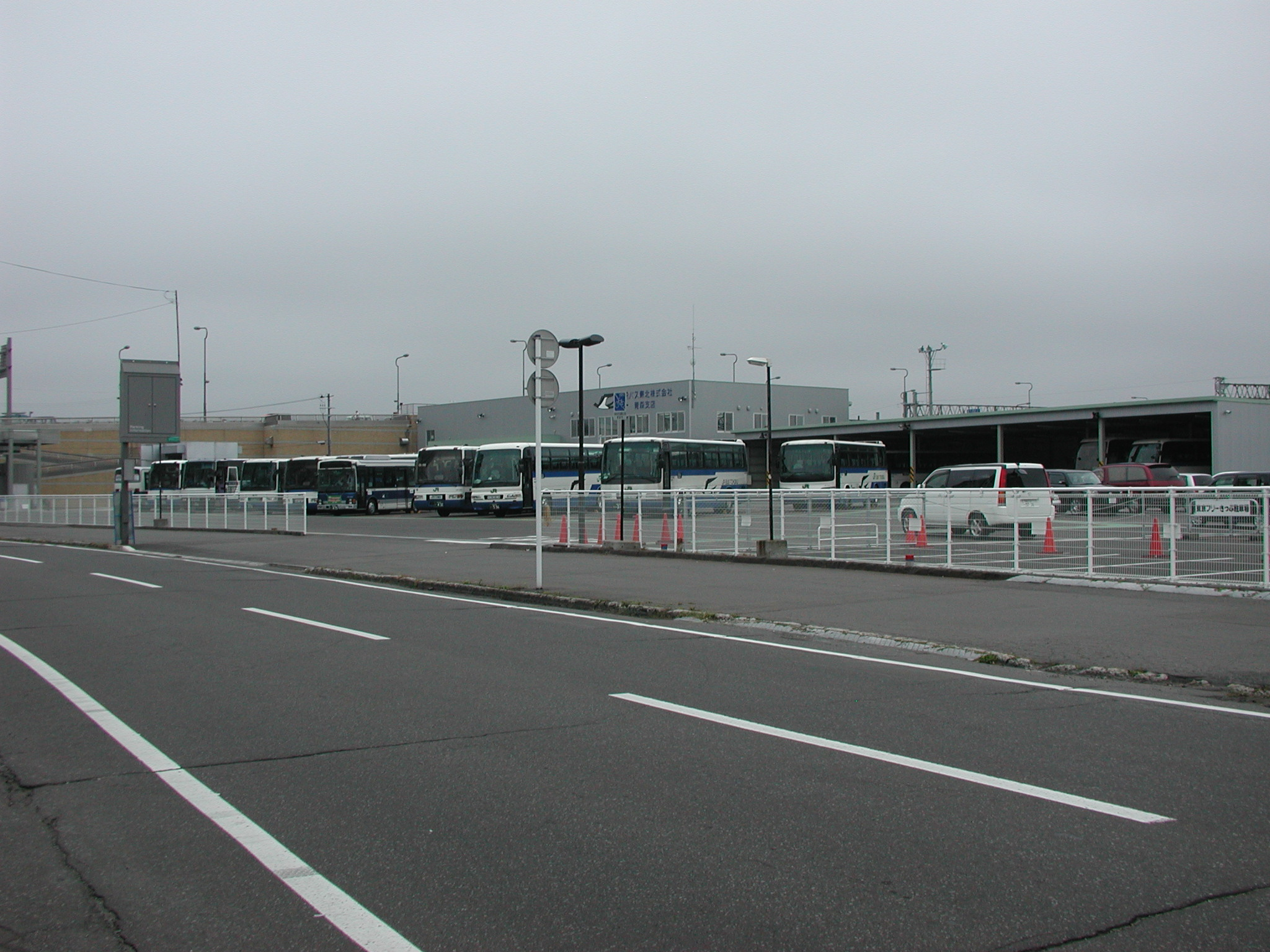 The JR Bus Tohoku Co., Ltd. Aomori Branch